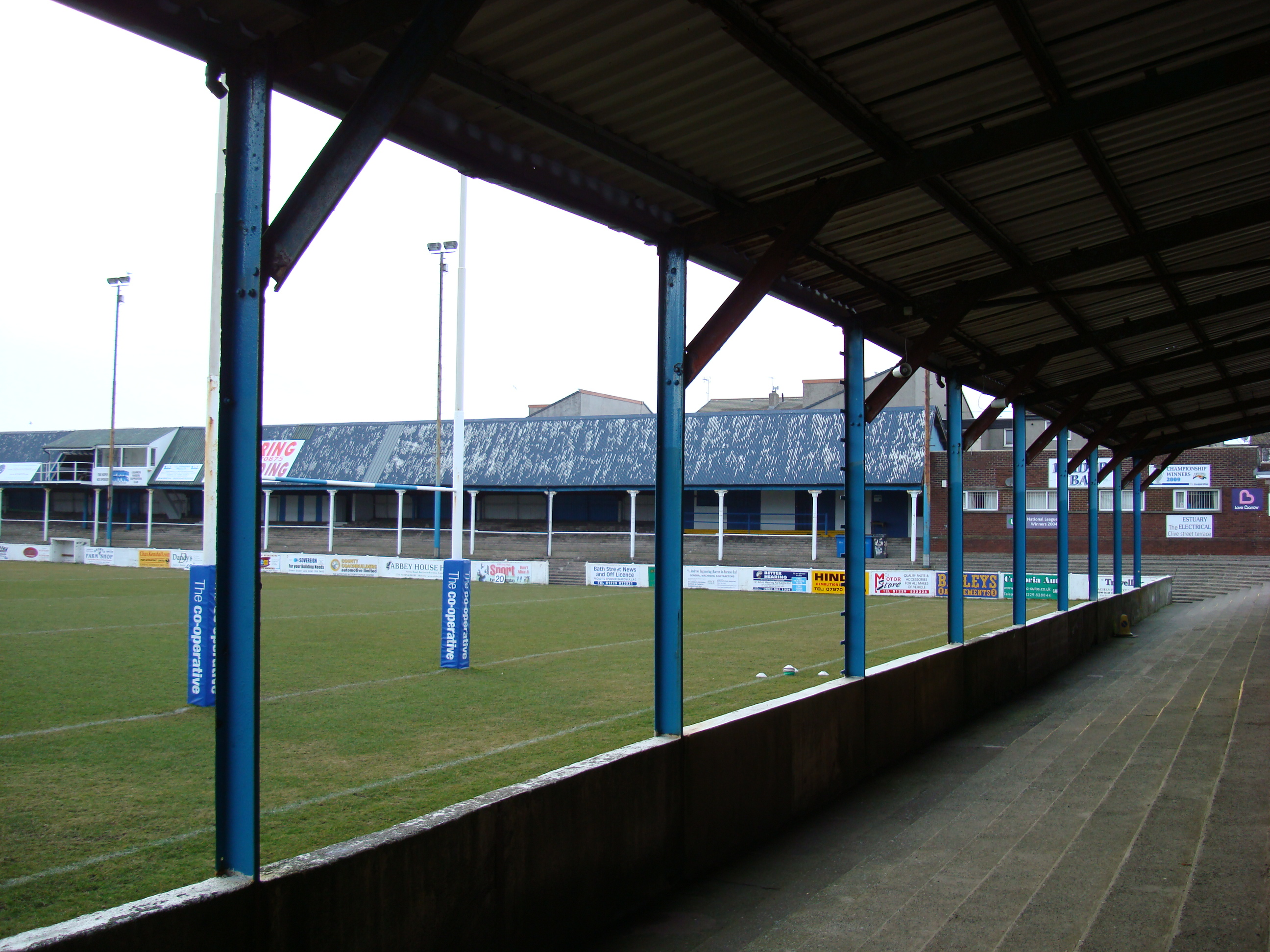 Craven Park, Barrow Raiders RLFC